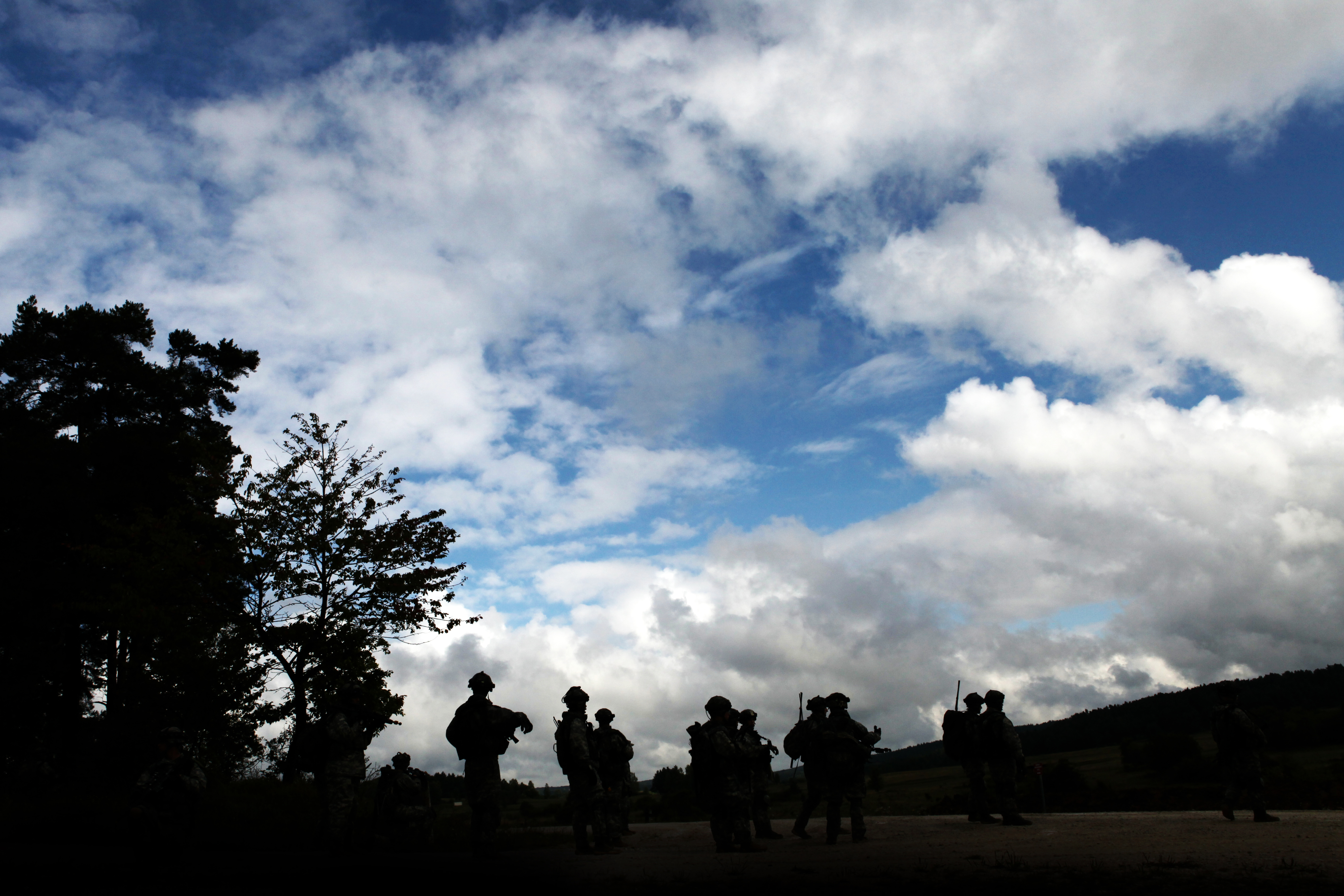 U.S. Soldiers with Attack Company, 1st Battalion, 503rd Infantry Regiment, 173rd Airborne Brigade Combat Team await further instruction Aug. 27, 2014, during Saber Junction 2014 at the Joint Multinational Readiness Center in Hohenfels, Germany. Saber Junction is a U.S. Army Europe-led exercise designed to prepare U.S., NATO and international partner forces for unified land operations.